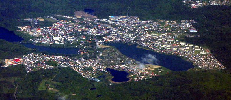 Kartuzy, Poland. Aerial view.